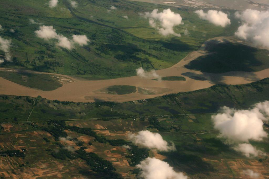 Just before landing in Dibrugarh aerial view of Brahmaputra river.